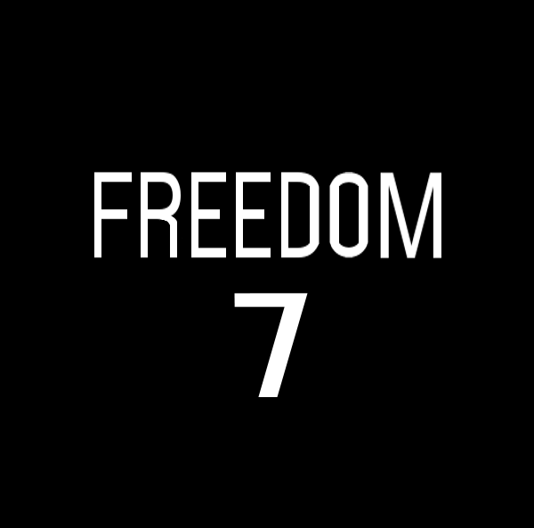 Mercury 3 Patch. Made in GIMP.